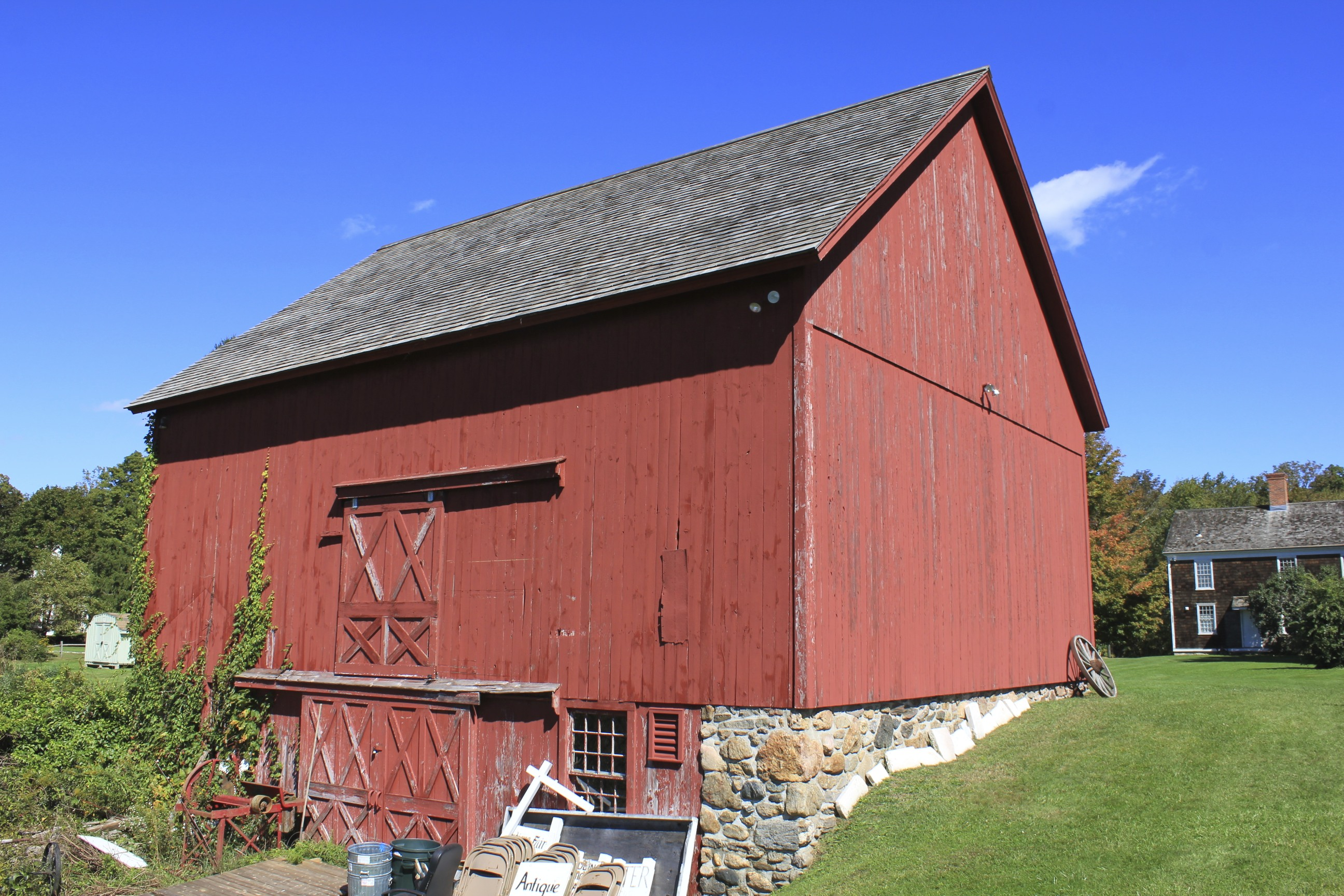 Daniel and Esther Bartlett House. The upper door is for ventilation or on very old barns used when winnowing grain.